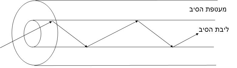 optical fiber